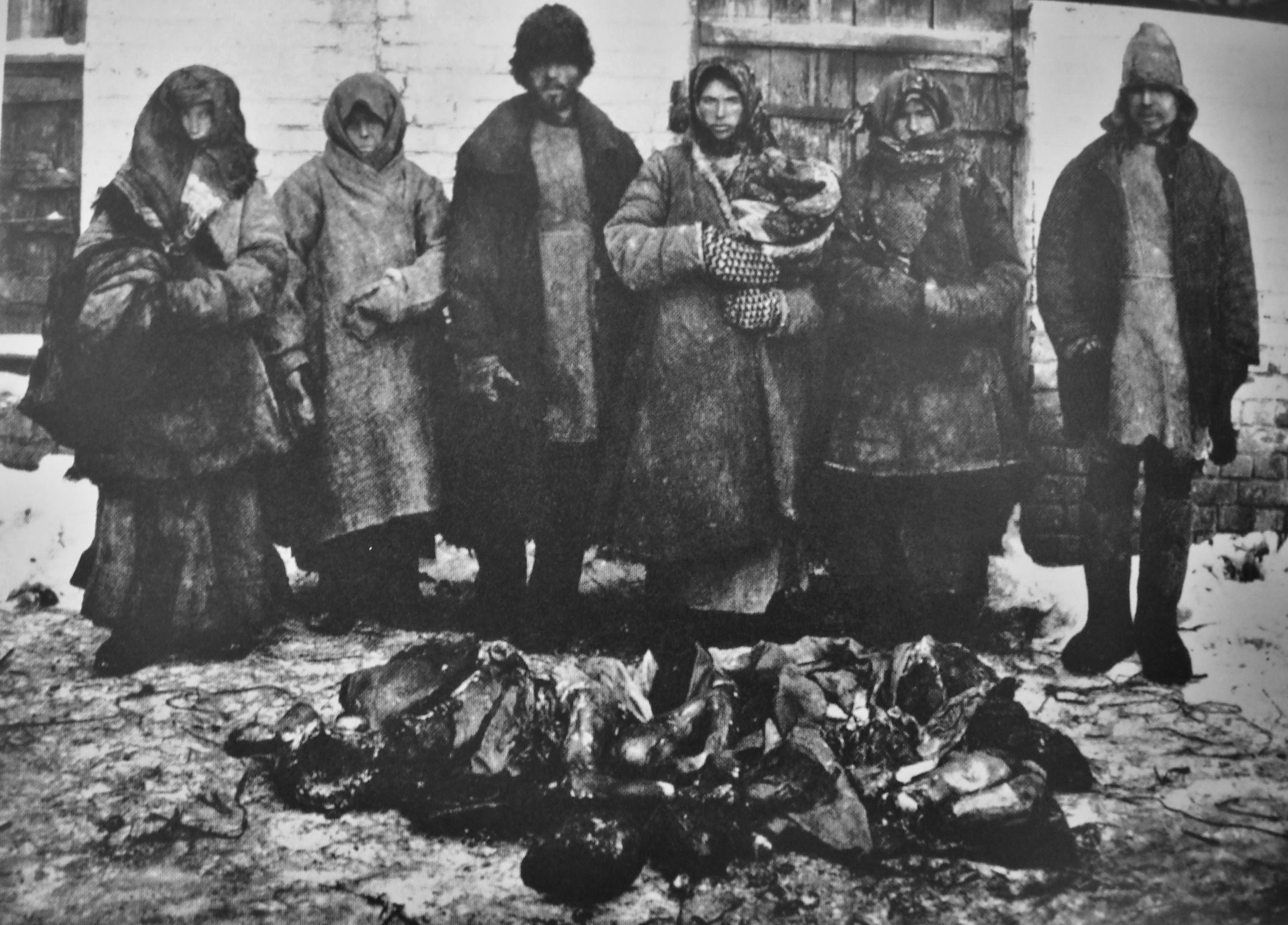 Cannibalism during russian famine of 1921. 6 peasants of Bouzuluk district and remains of humans they eatten